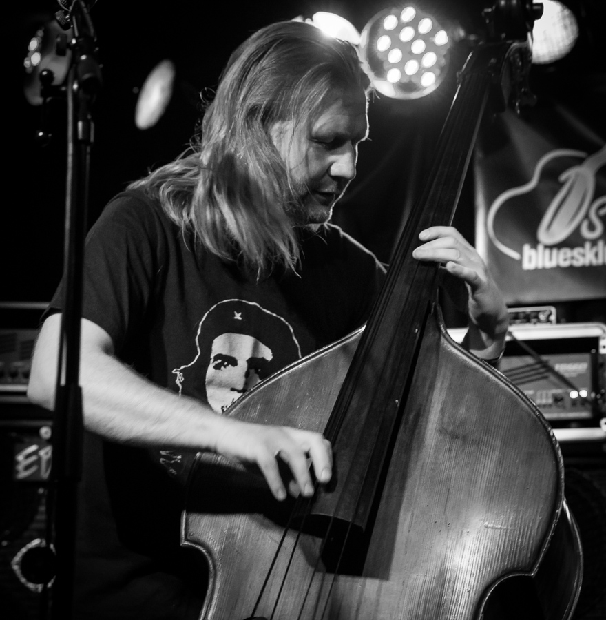 Per Mathisen performs with Per Mathisen Wonder Quartet at the stage of Buckleys. The concert was part of the Oslo Jazz Festival in Norway and took place on 18. August 2016. Lineup: Per Mathisen (double bass) Olga Konkova (keyboard) Bendik Hofseth (tenor saxophone) Utsi Zimring (drums)